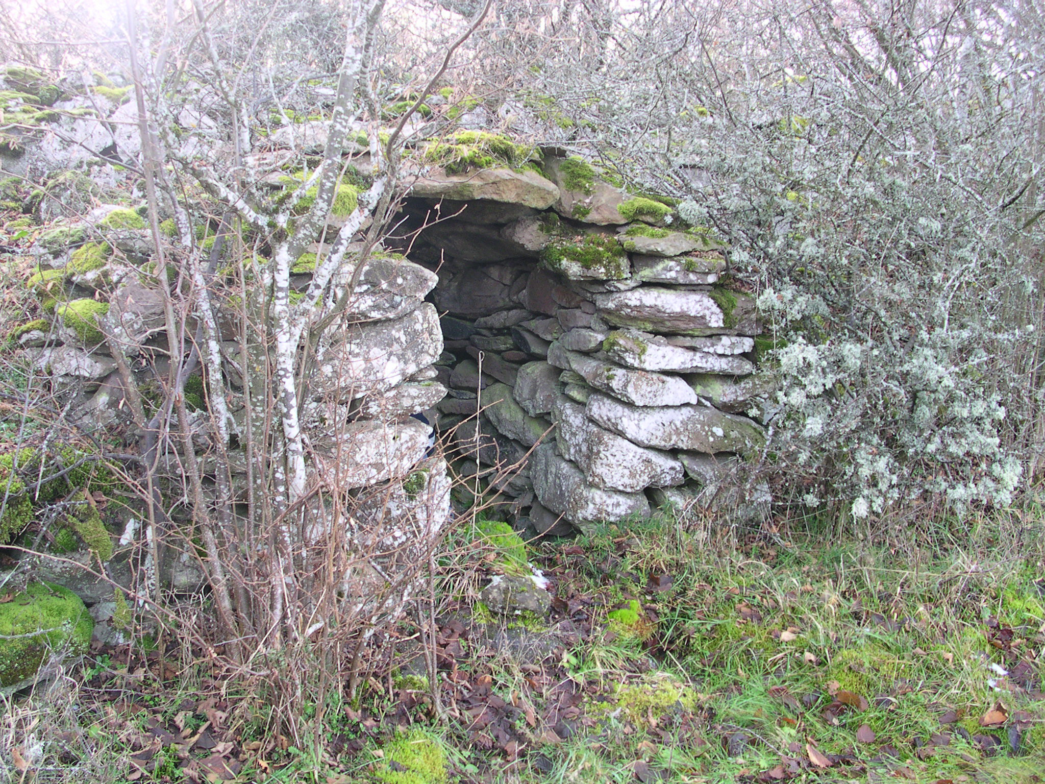 Sherherd shelter in a dry-stone wall near the Nadaillat village(commune of Saint-Genès-Champanelle, Puy-de-Dôme, France) on the south side of the "de la Vigeral" volcanoes (position of the shelter N 45°41'01" E 003°01'55").